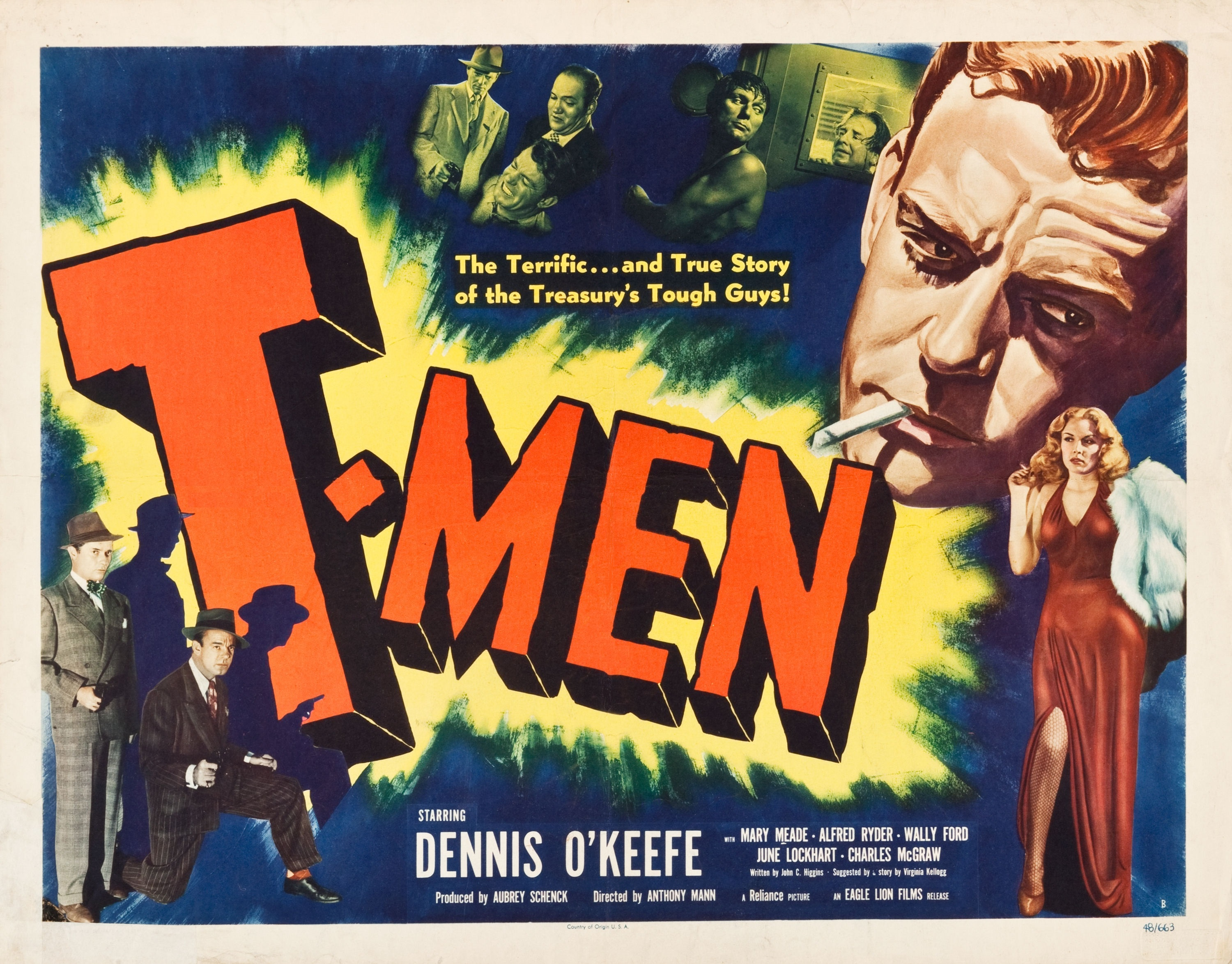 Poster for the 1952 film T Men. The item has no copyright markings on it as can be seen in the links above. At bottom is Country of Origin USA, "B" and 48/663